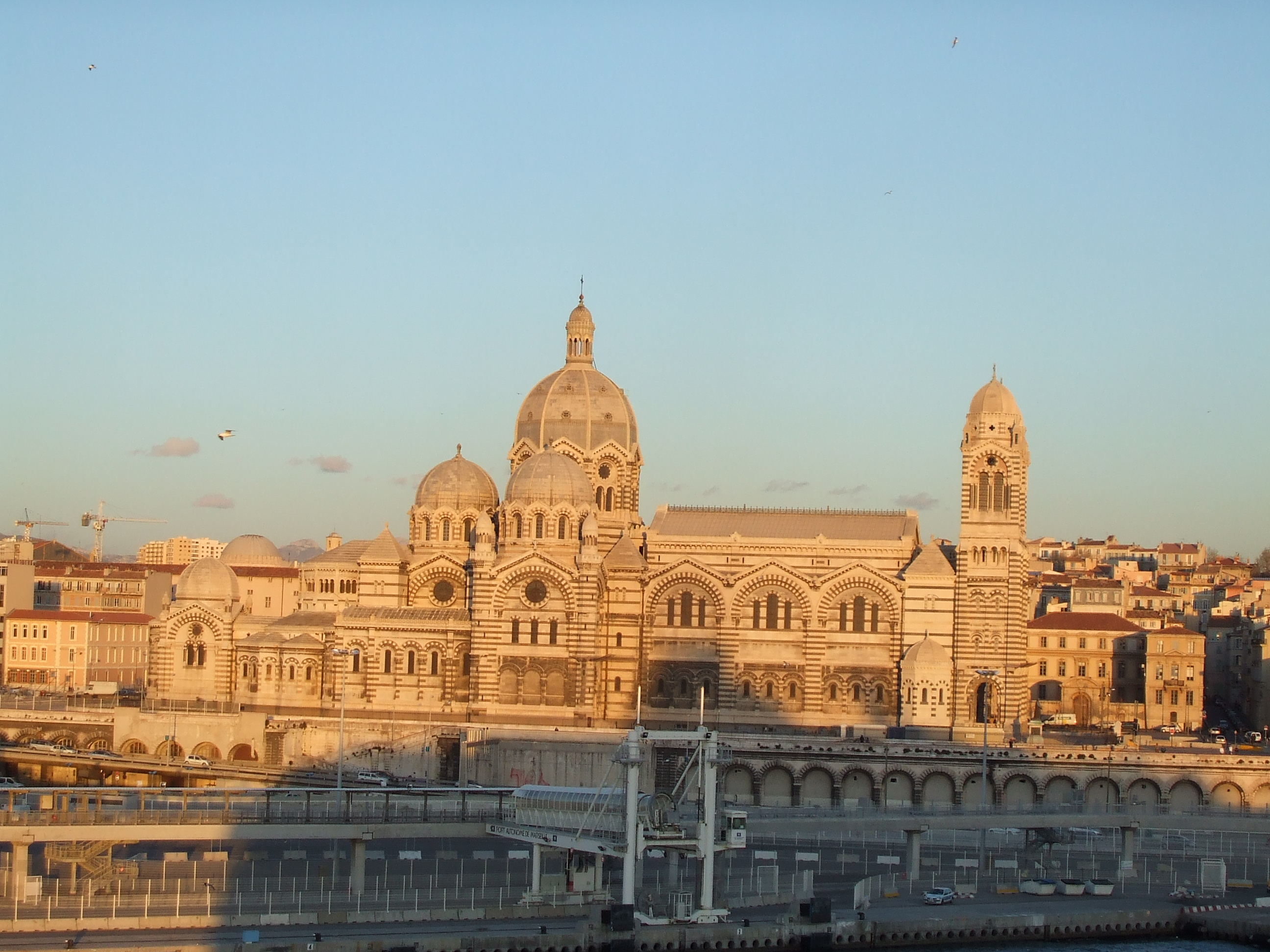 "La Major" Cathedral, Marselha